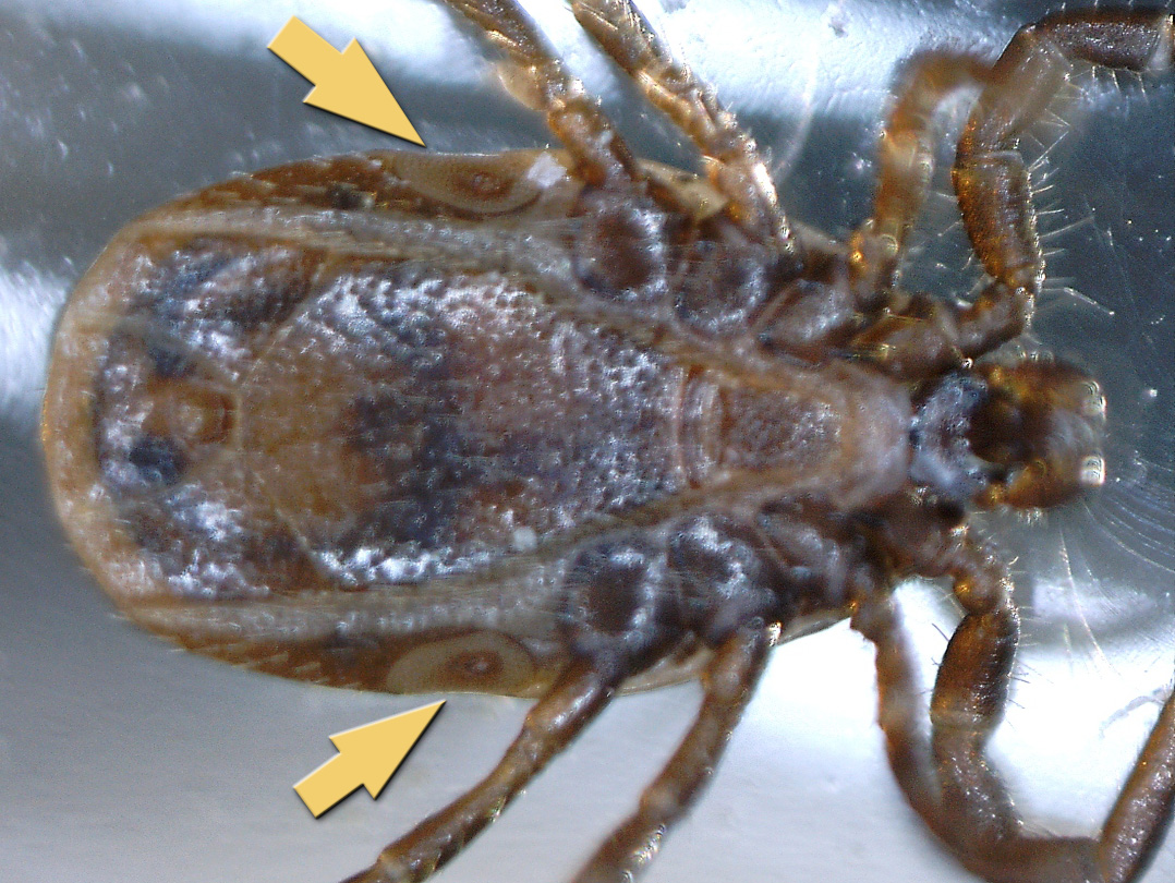 Spiracles of a tick (found in the forest of Flines-lez-Mortagne in the northern France, July 10, 2015)